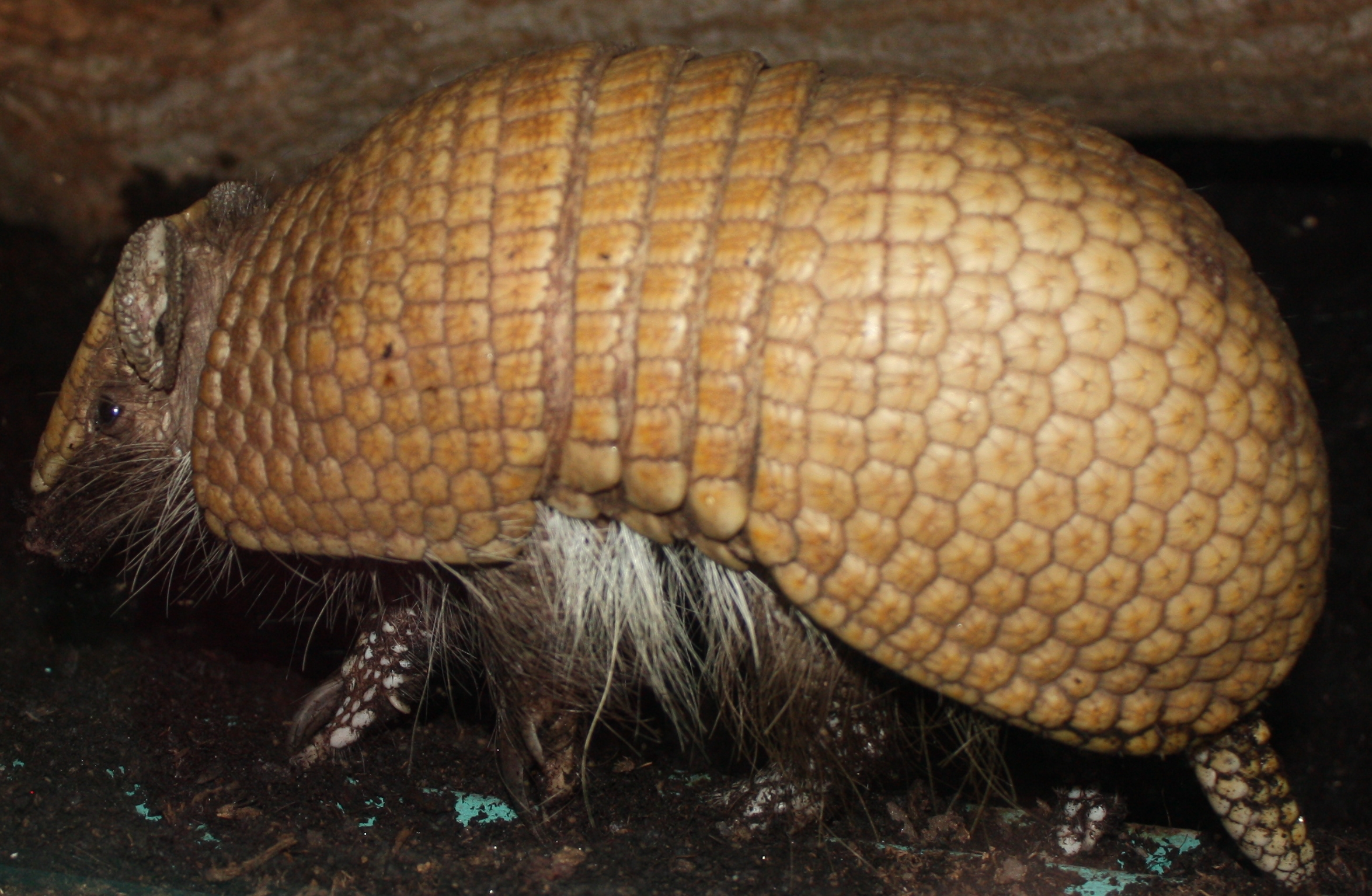 Southern Three Banded Armadillo (Tolypeutes matacus) at the Louisville Zoo